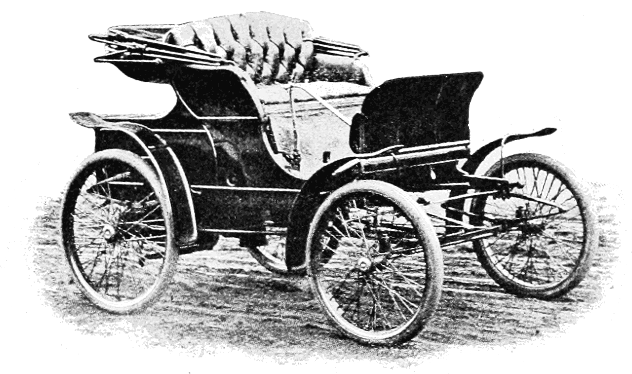 Winton phaeton